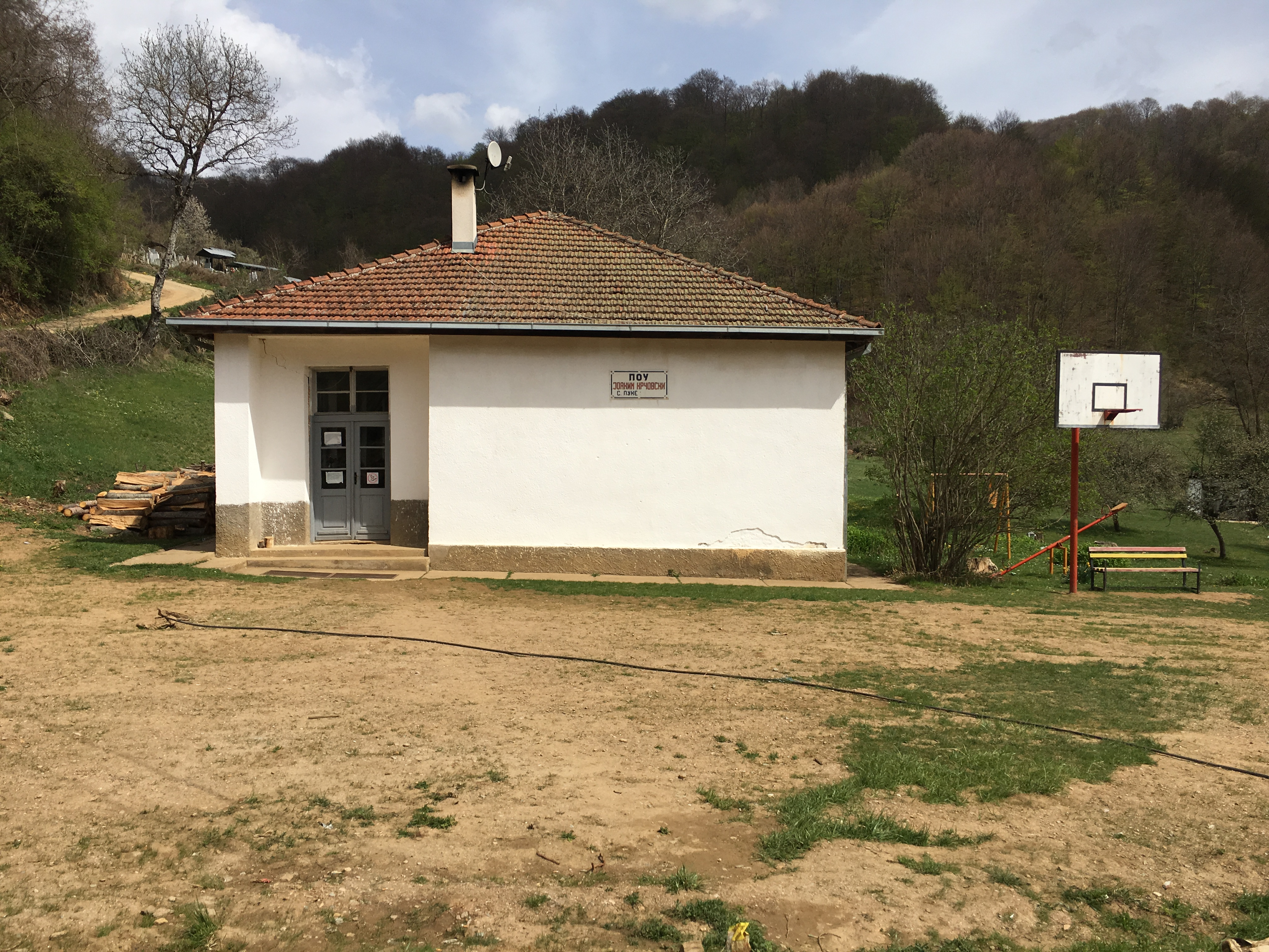 The primary school in the village of Luke